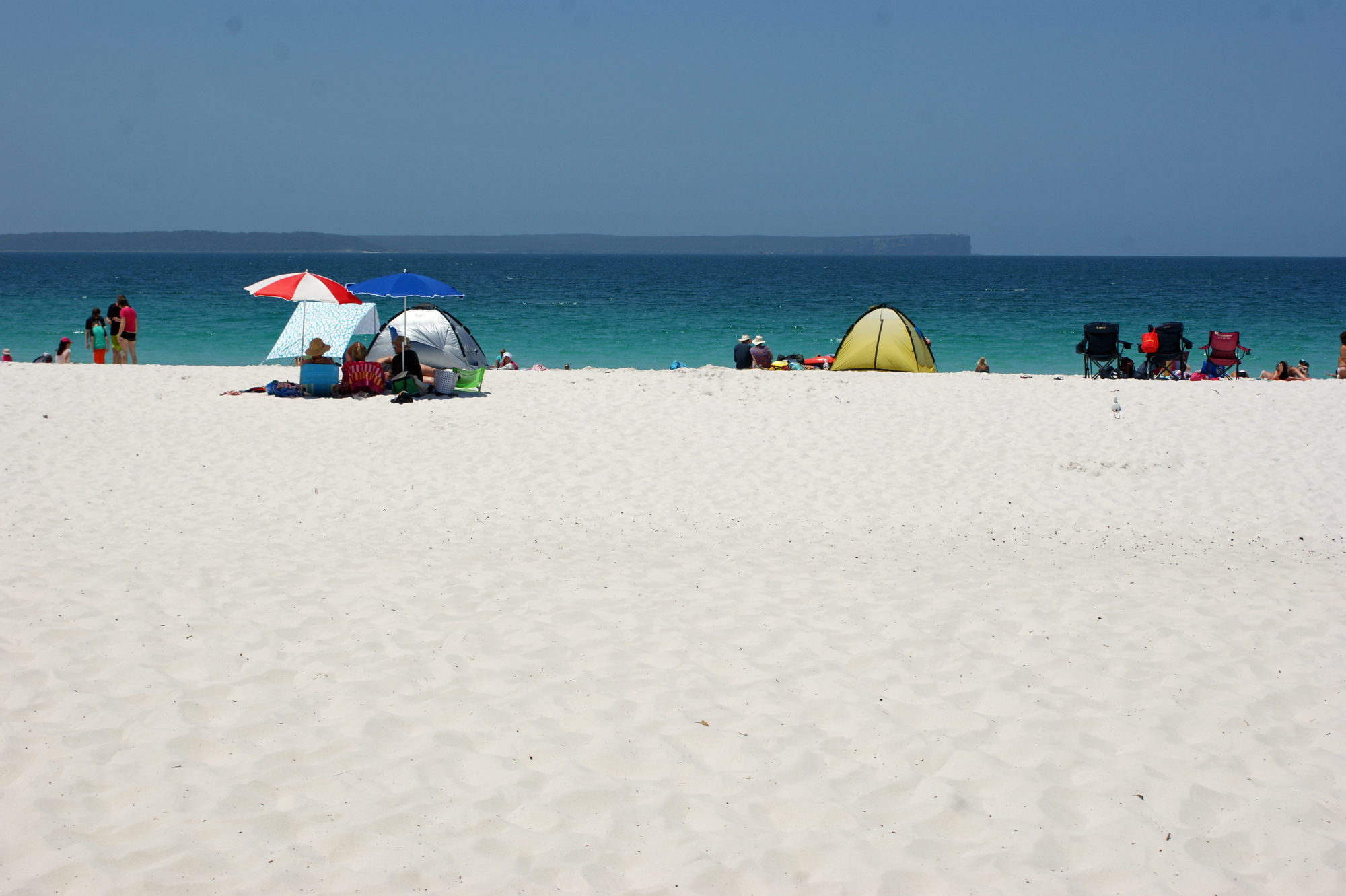 Hyams Beach, Jervis Bay, NSW, Australia – looking East accross Jervis Bay